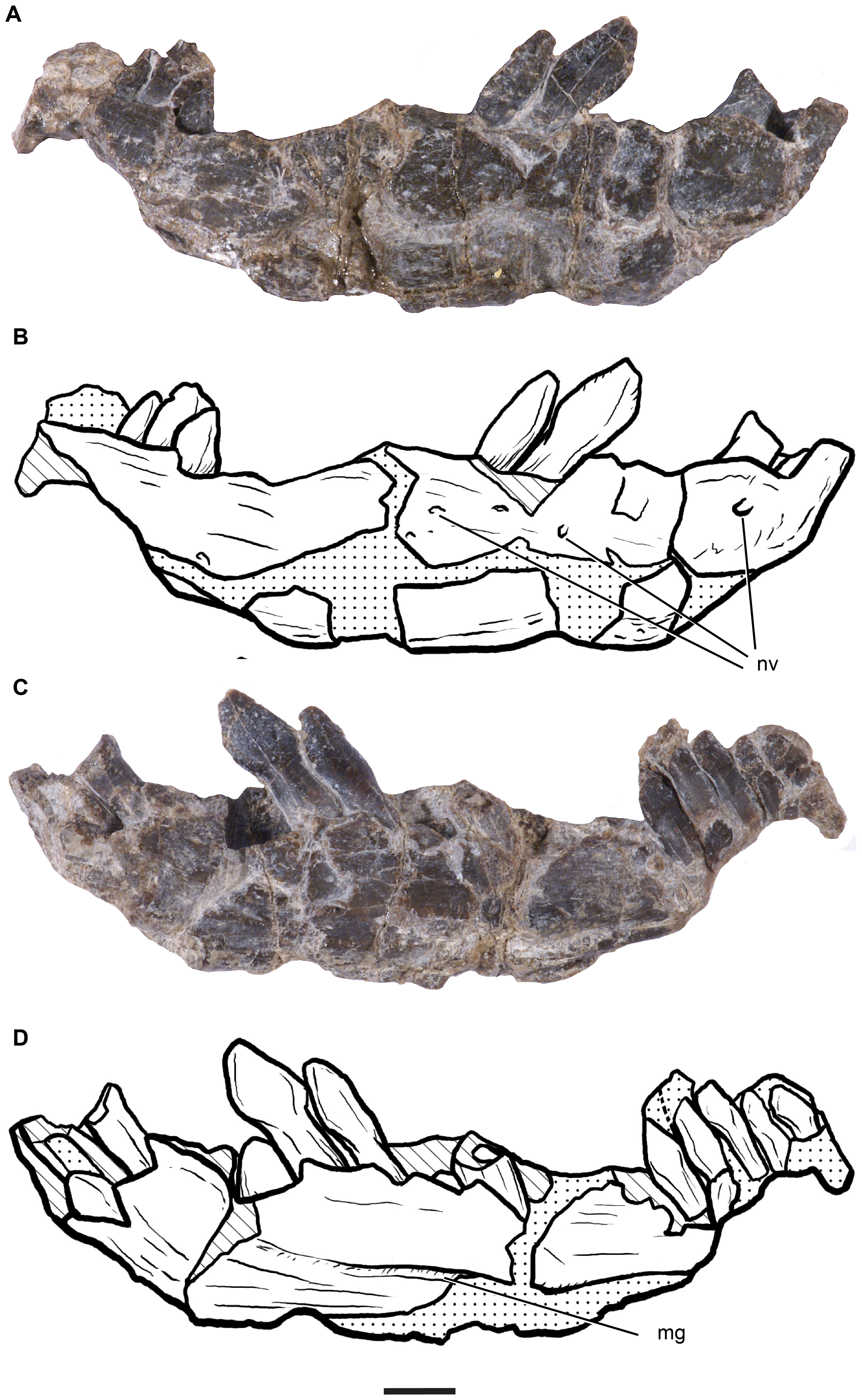 Dentary of Leonerasaurus taquetrensis (MPEF-PV 1663). A-B, lateral view. C–D, medial view. Scale bar represents 5 mm. Abbreviations: de, dentary; mg, meckelian groove; nv, neurovascular foramina.